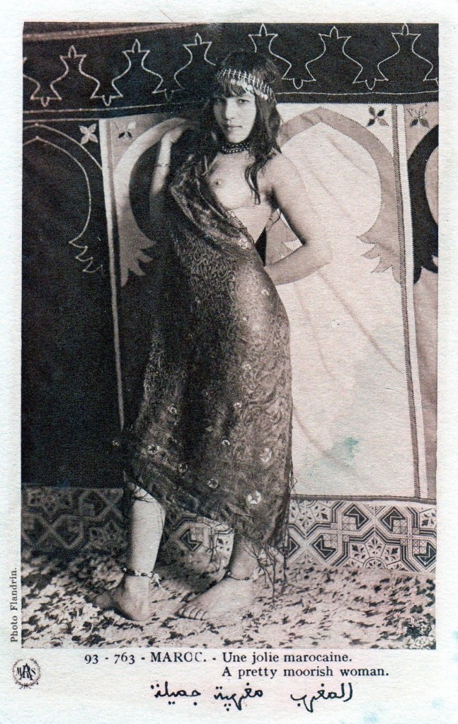 Marcelin Flandrin postcards